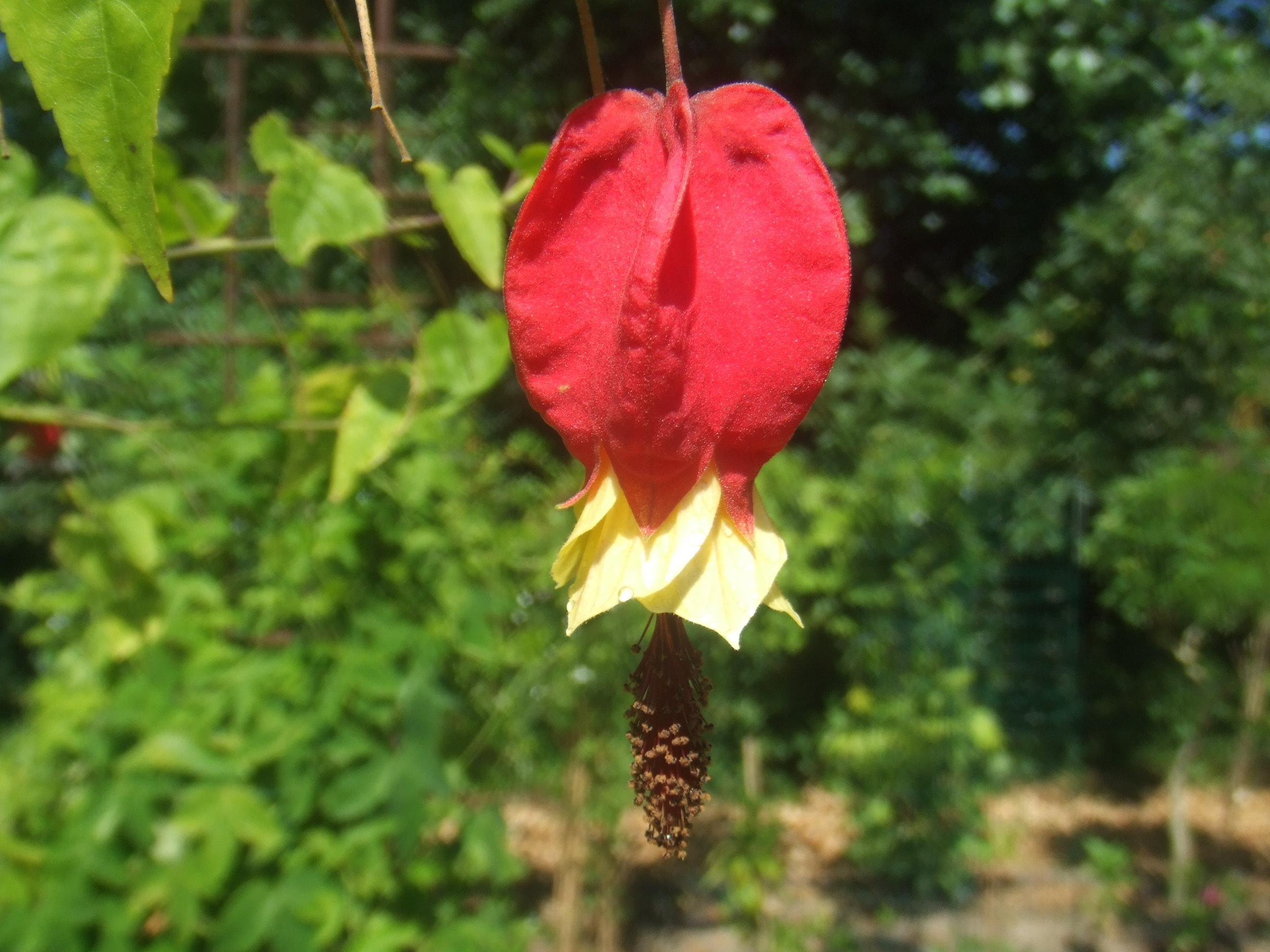 Abutilon megaptamicum, picture taken at he Passiflorahoeve in Harskamp, The Netherlands